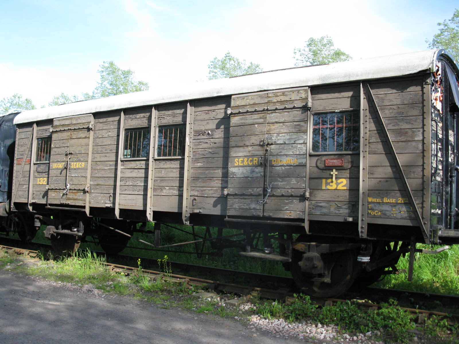 South Eastern & Chatham Railway PMV No. 132. This vehicle was used to transport the body of Edith Cavell, and Charles Fryatt, on arrival back in the UK for burial.